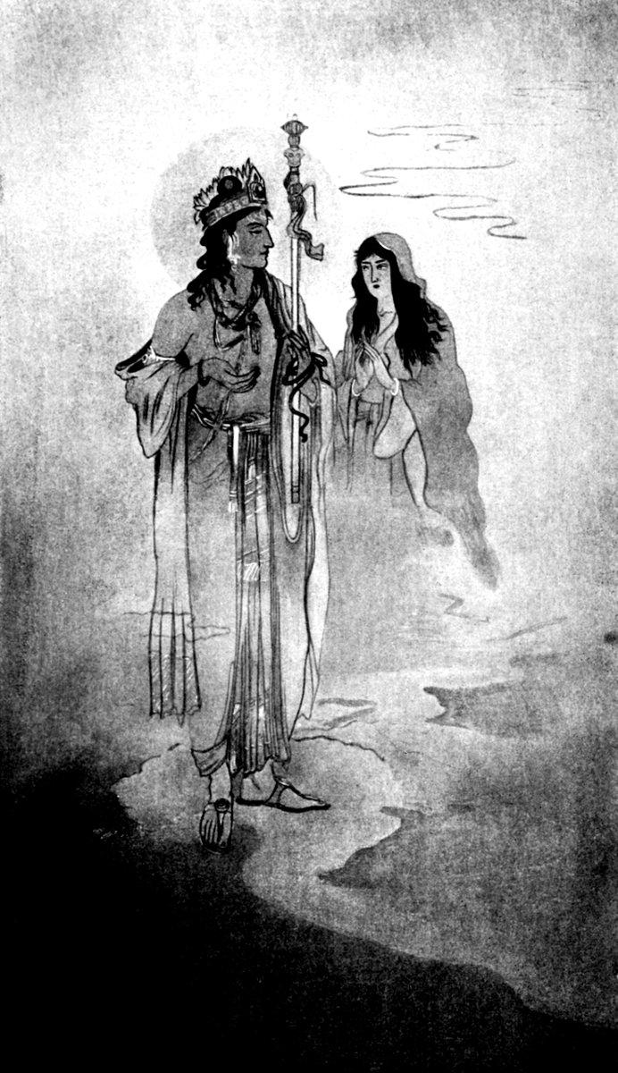 Yama And Savitri, from a painting by Nandalal Bose (by permission of the Indian Society of Oriental Art, Calcutta), as published on the book Indian Myth and Legend, by Donald Alexander Mackenzie.